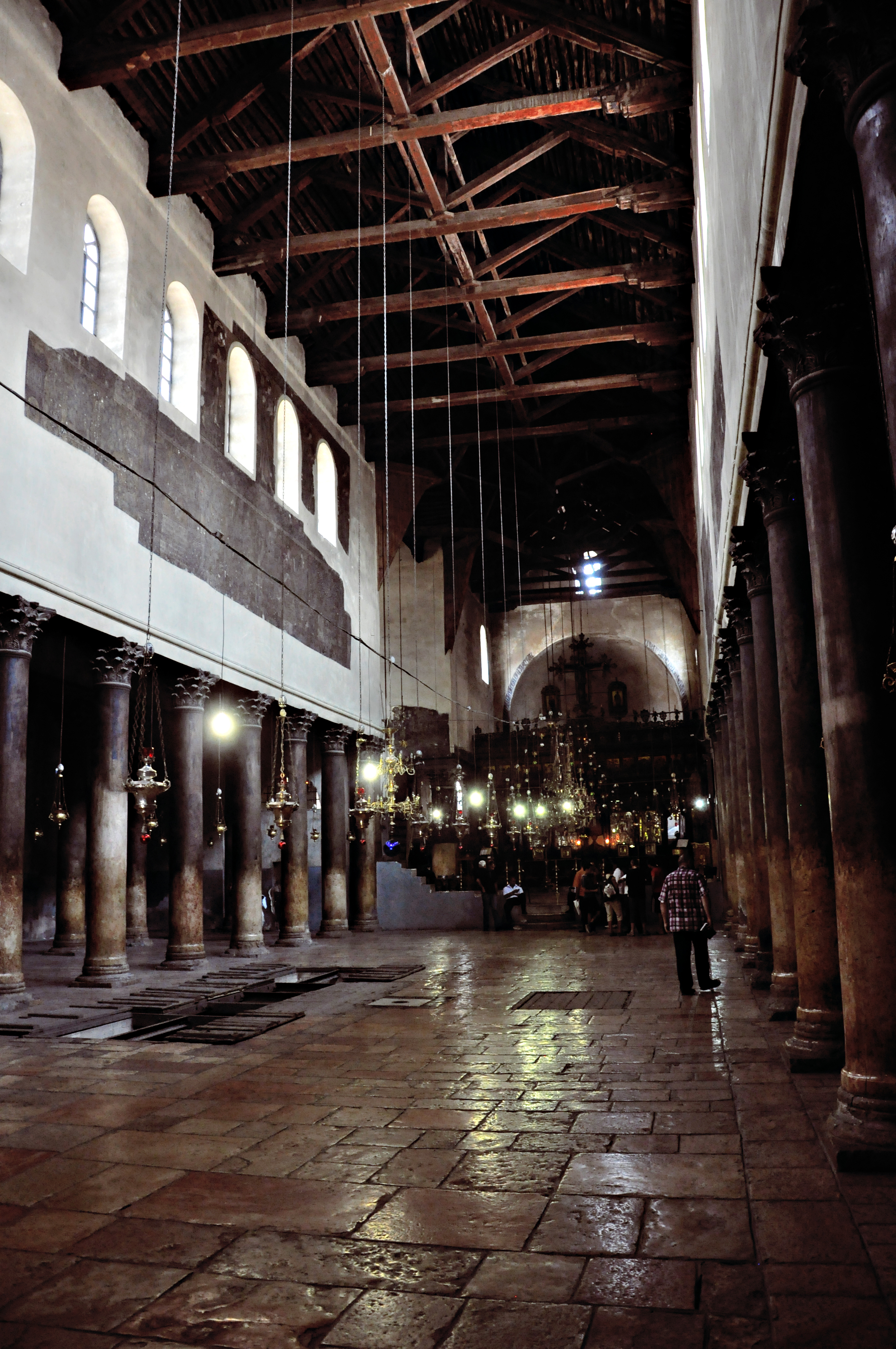 Views of Jerusalem from Mount of Olives, in Hebrew called Har ha-Zetim. Gethsemane (Hebrew gat shemanim) is literally oil press.